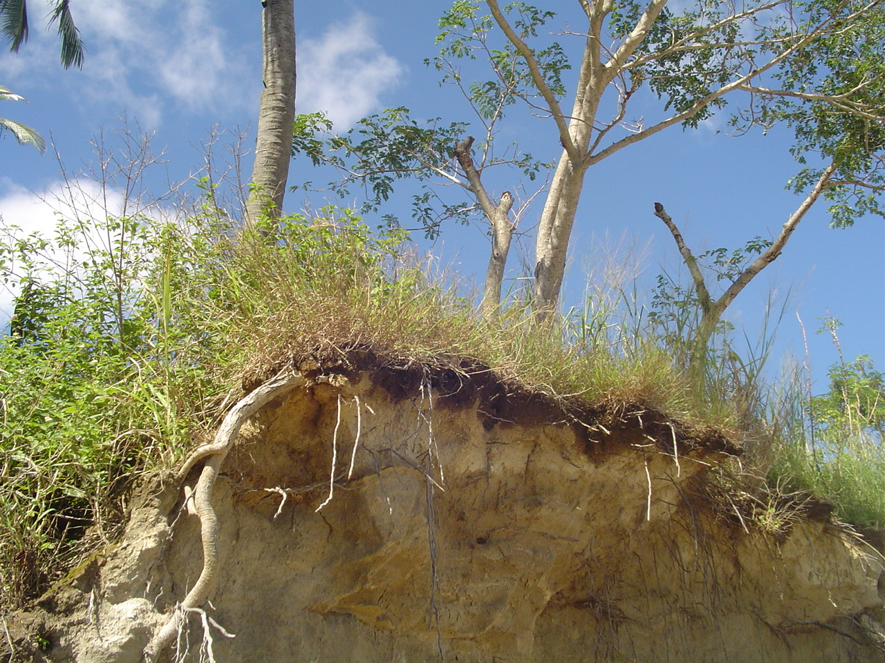 Soil erosion at the beach (Mayotte)